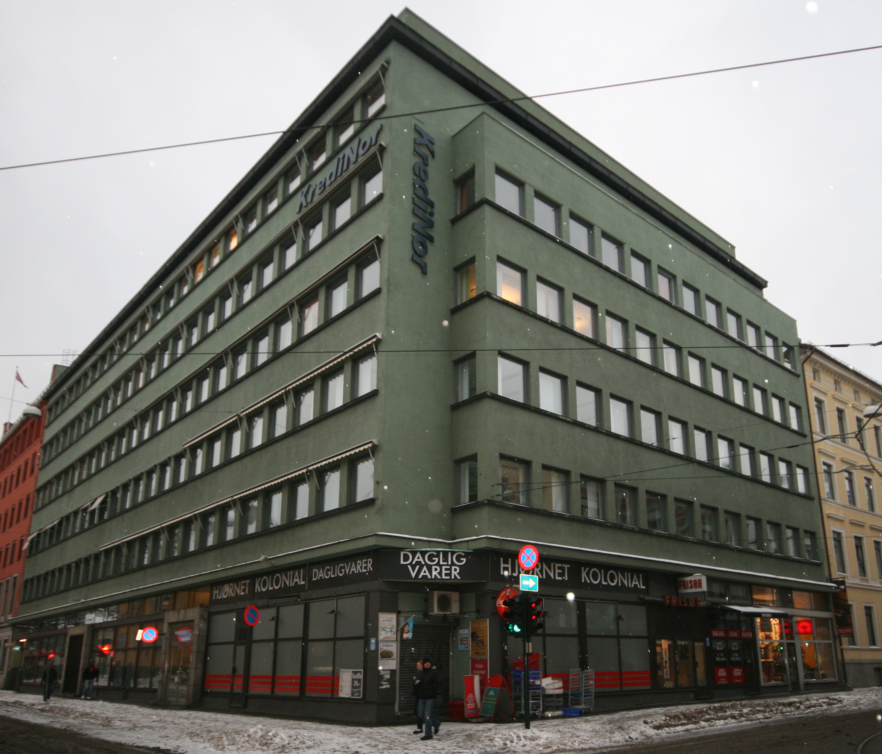 Prinsens gate 2 (De-No-Fa-gården) in Oslo, Norway. Awarded Houens fonds prize in 1933. Architect: O. Eindride Slaatto